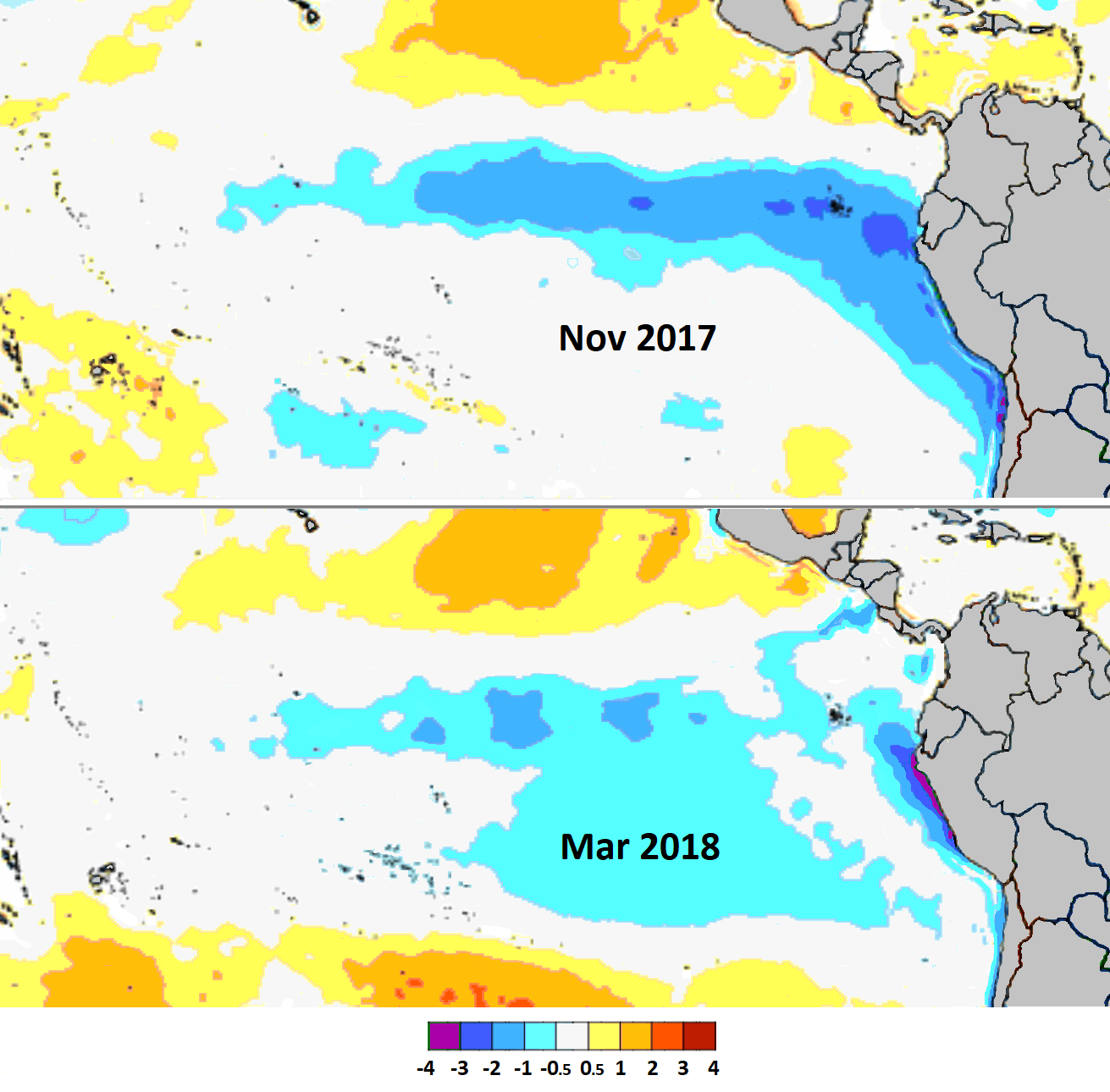 Cold La Niña event 2017-18.